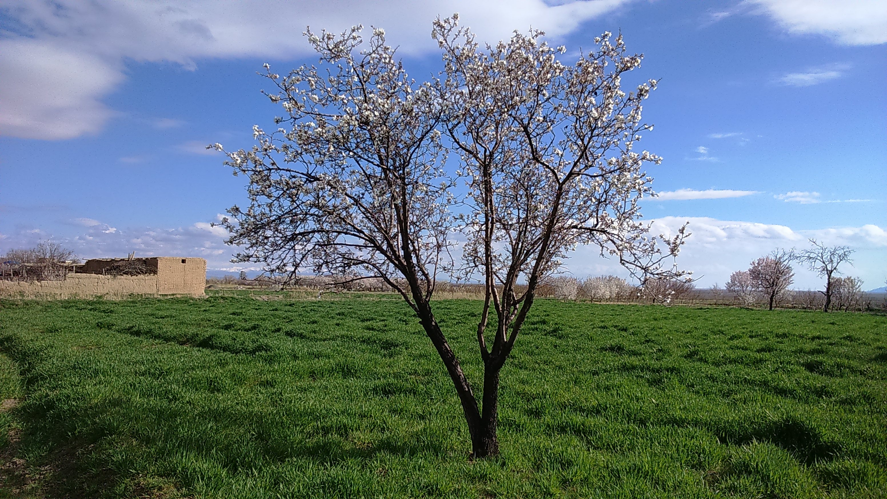 درخت بادام در روستای شنگل آباد